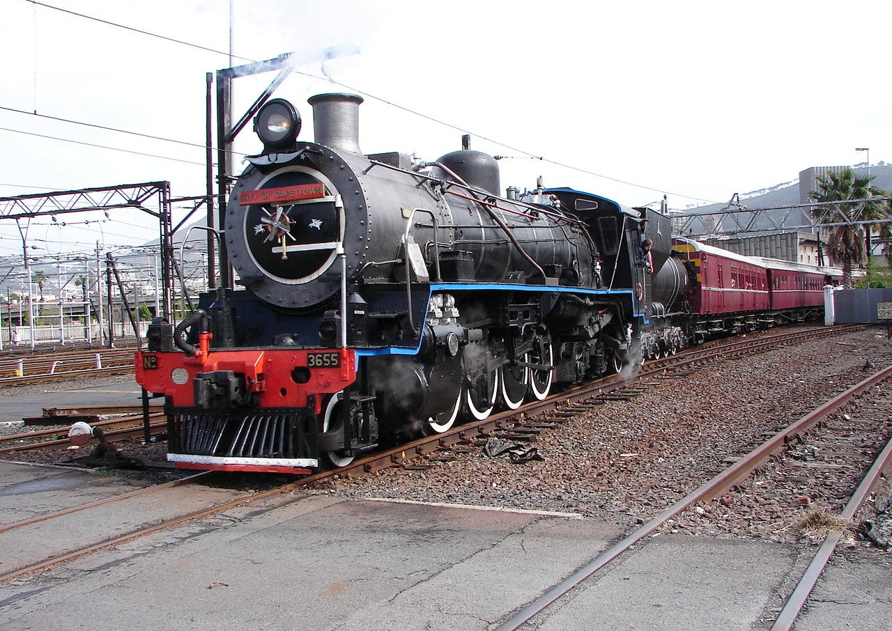 SAR Class 24 3655 (2-8-4) Builder's Number: NBL 26367 Location: Monument, Cape Town, Western Cape